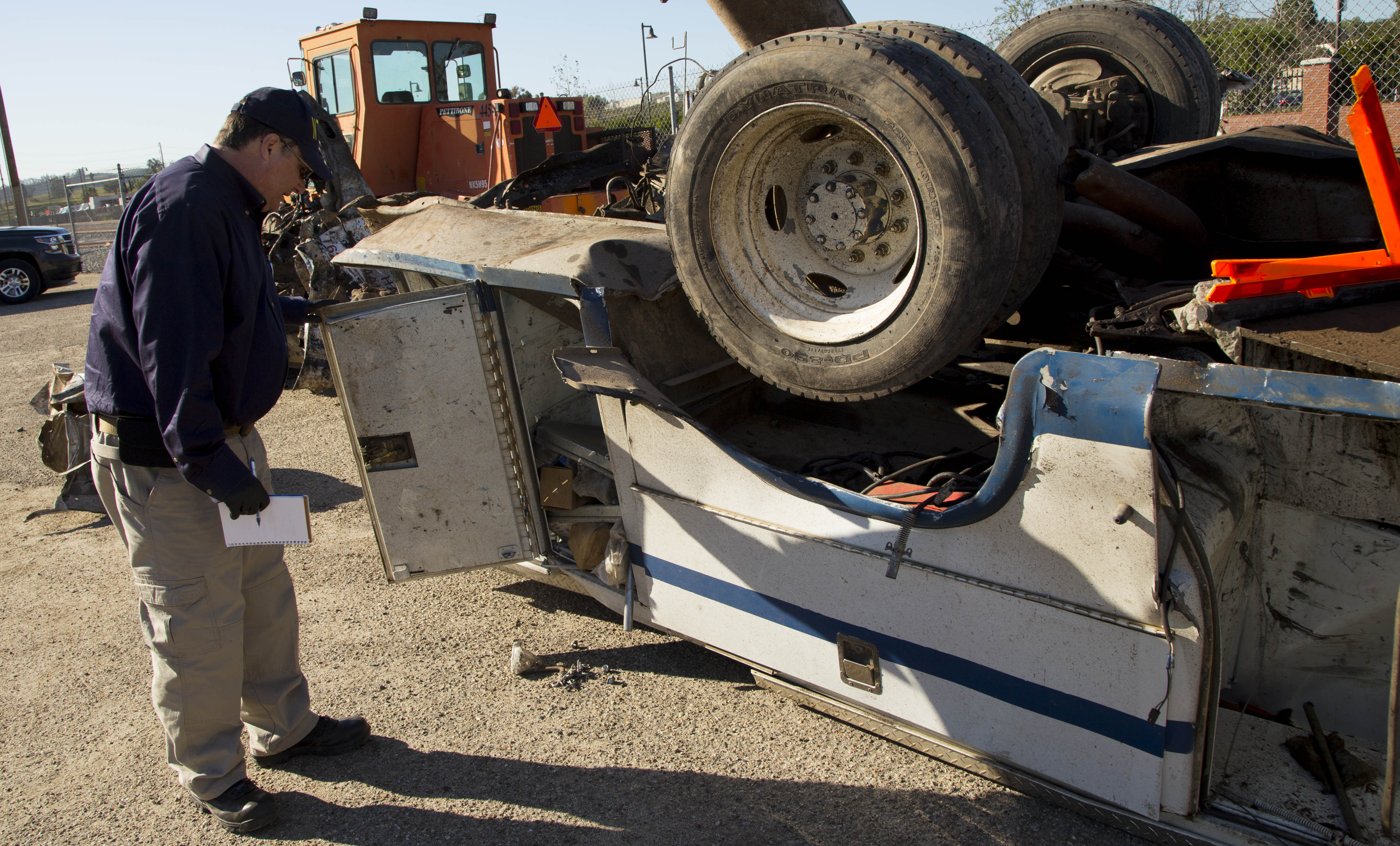 NTSB highway investigator Michael Fox examines truck involved in CA grade crossing accident